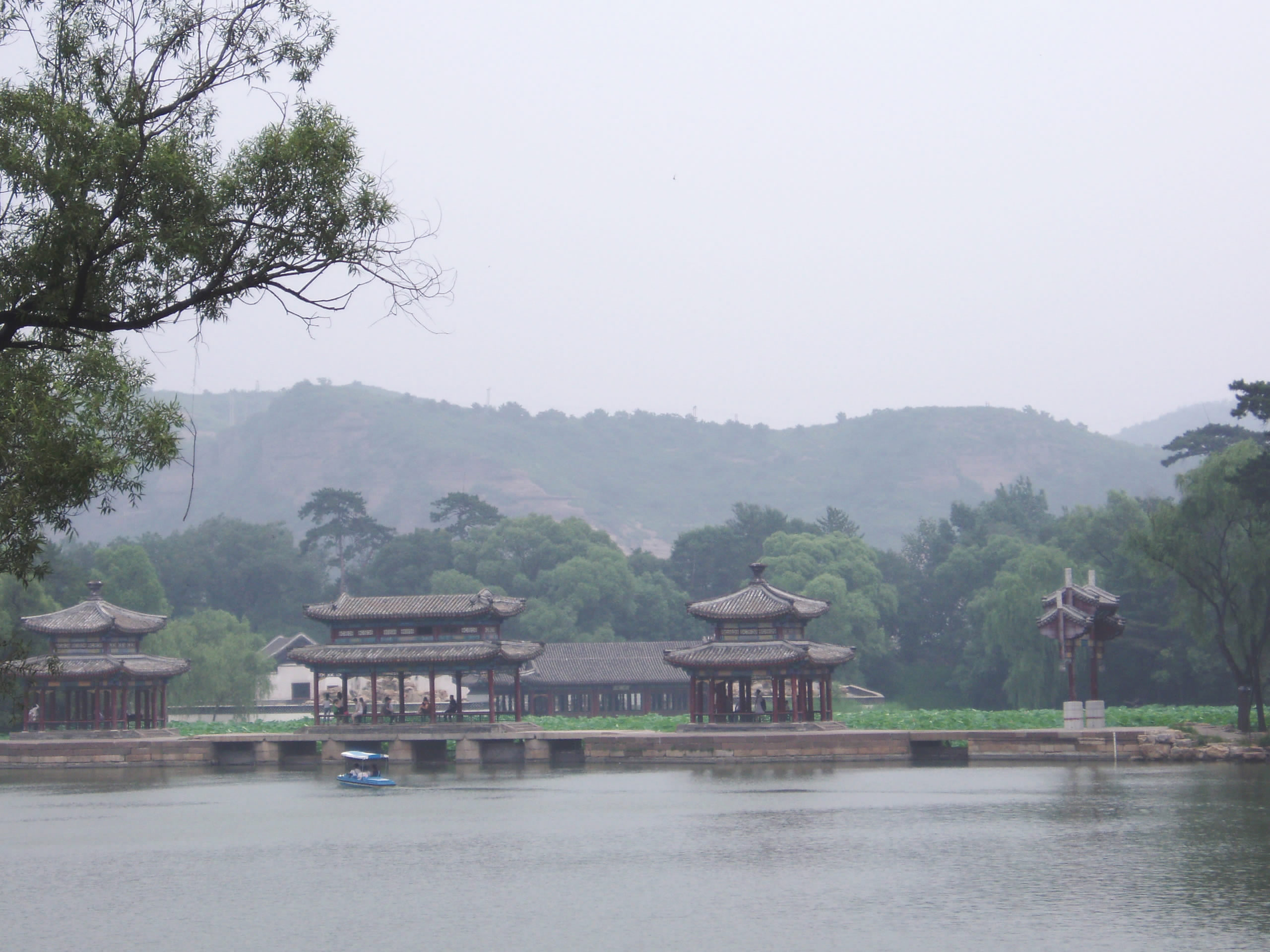 Mountain Resort, Chengde